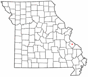 Modified from a map on Wikipedia.